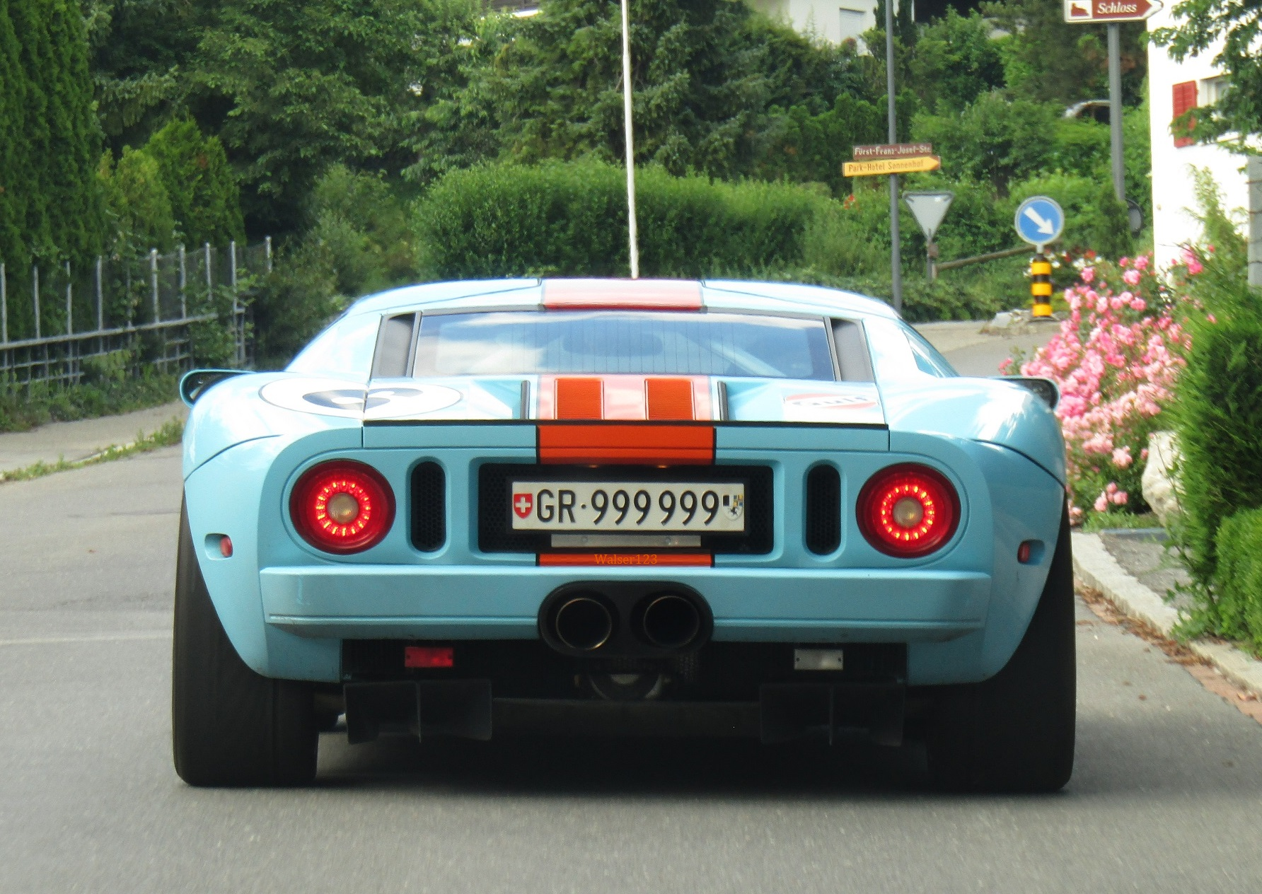 GR 999999, personalized "vanity plate"